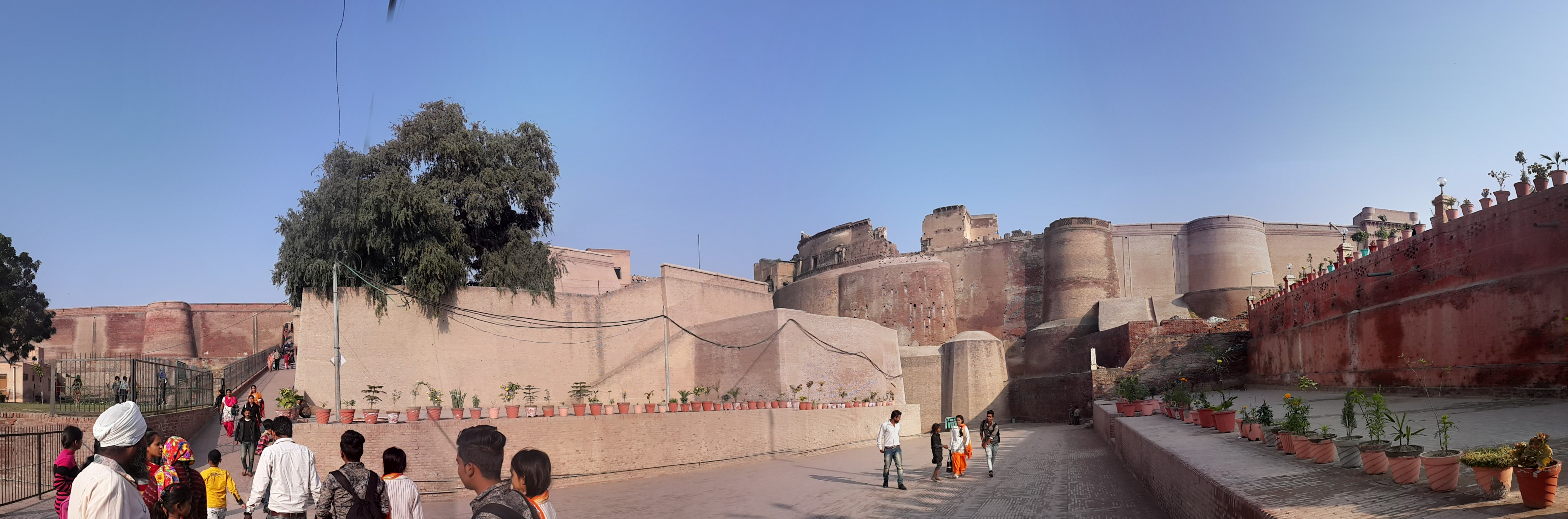 Qila Mubarak ,Bathinda